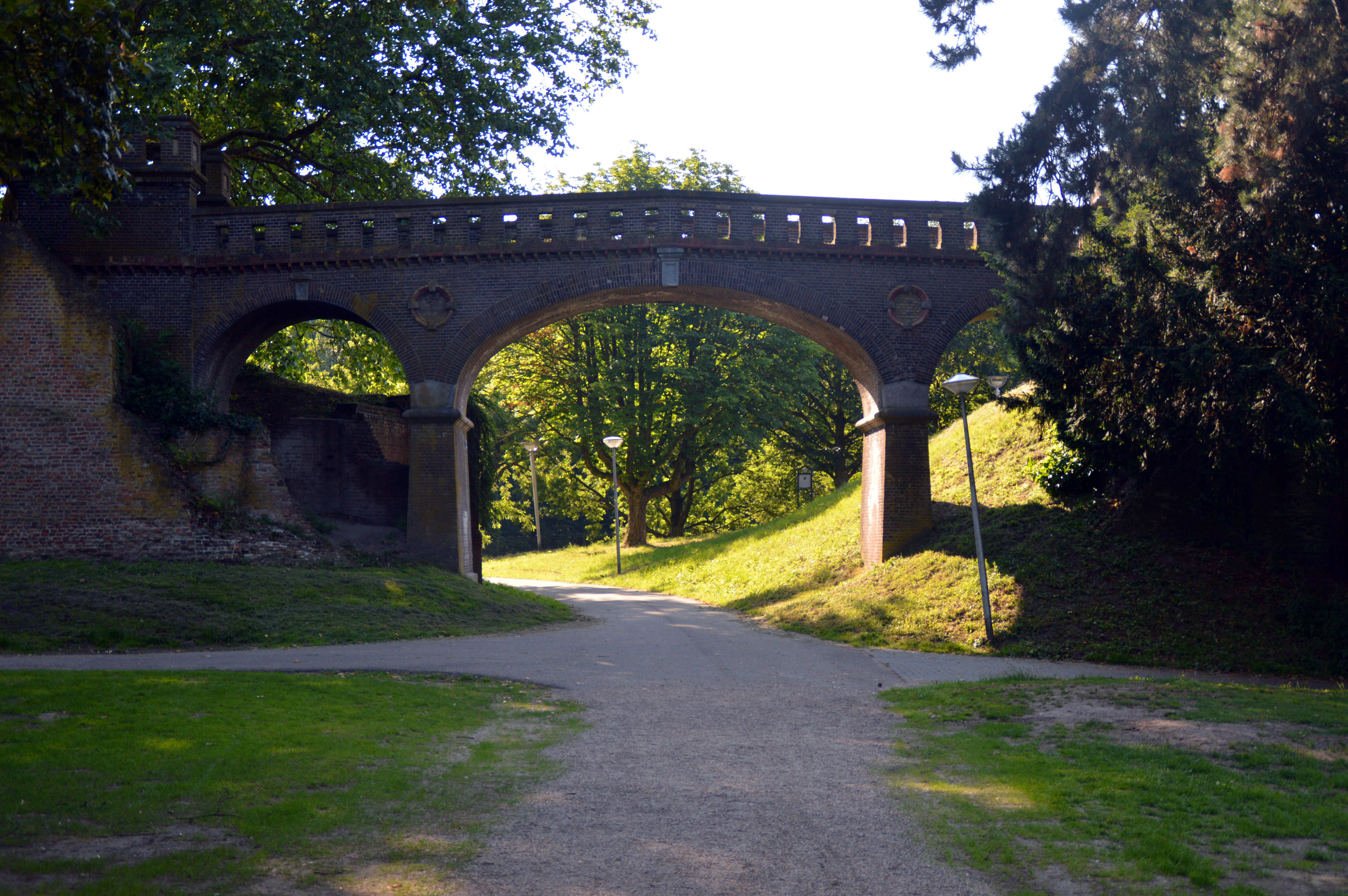 Pedestrian bridge Hunnerpark Nijmegen